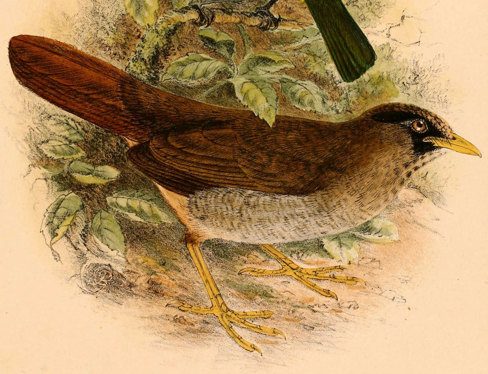 « Cataponera turdoides » = Cataponera turdoides (Sulawesi Thrush)